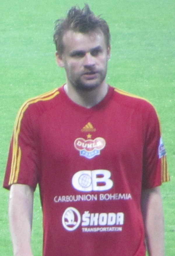 Zbyněk Pospěch of FK Dukla Praha after the match against FC Vysočina Jihlava